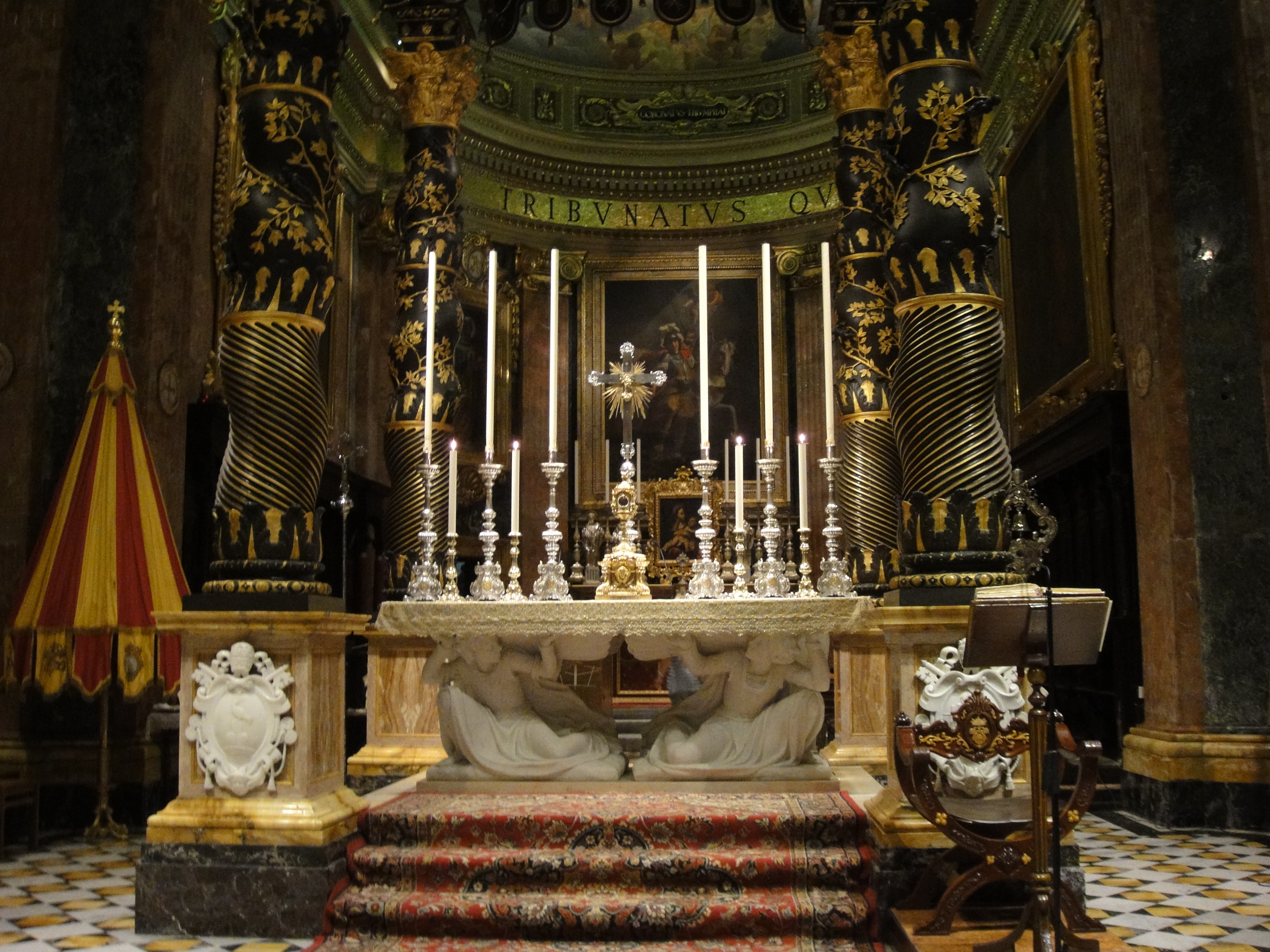 The pontifical main altar of St George's Basilica installed in 1960.